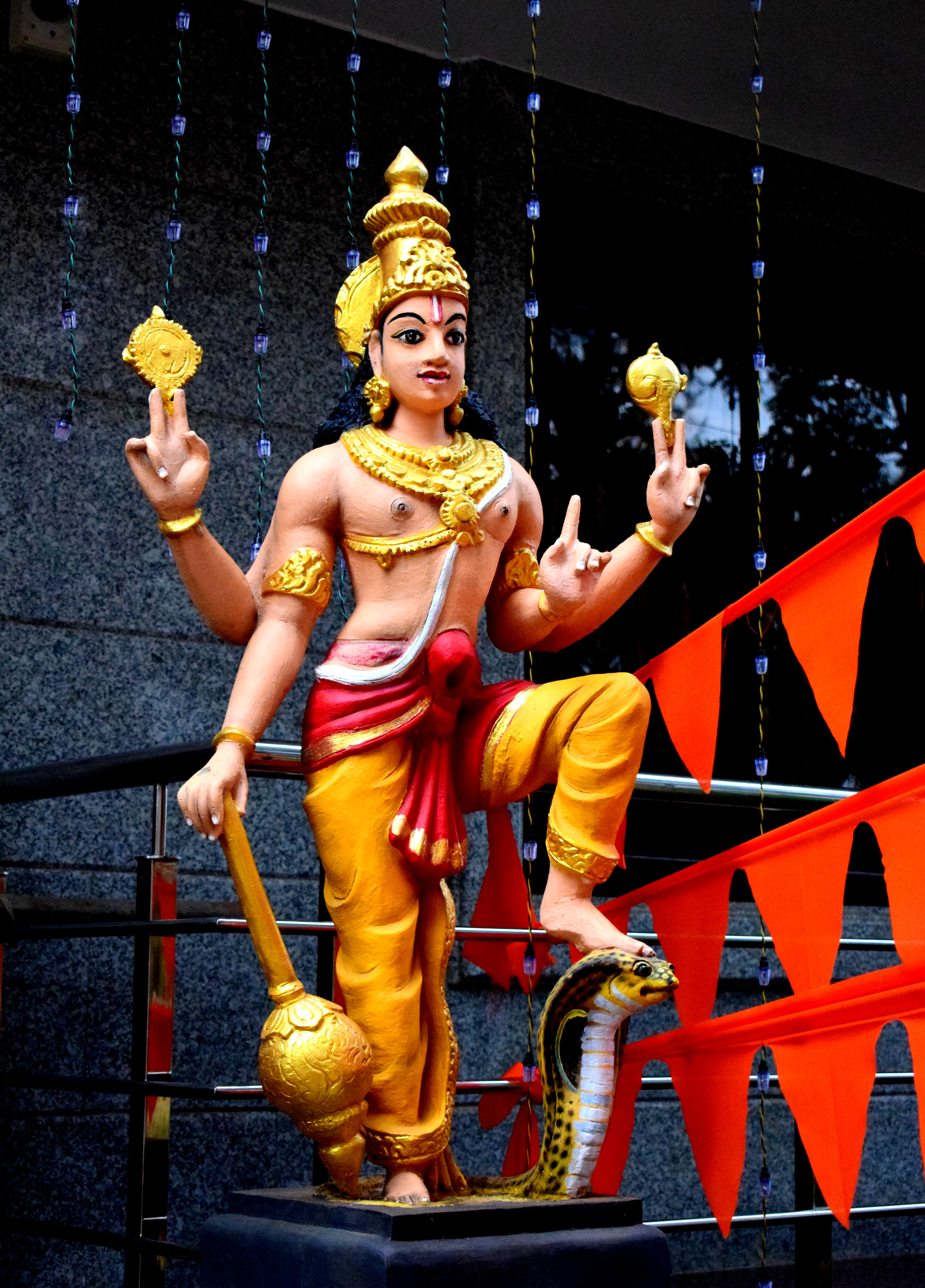 lord vishnu